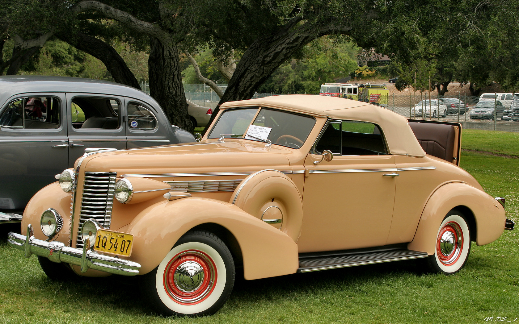 1938 Buick CenturyGlendale, CA, Buick Club, May 2, 2009